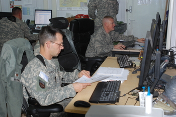 Navy Lt. Cmdr. Andrew Bertrand (left) and Air Force Capt. John Feldt gather information for responses to a Mission Rehearsal Exercise (MRX) battle drill scenario. JTF 435 successfully completed the MRX and reached Initial Operations Capability Jan. 7. Upon achieving IOC, JTF 435 gained the capability to conduct command and control of subordinate units and operate as a headquarters in Kabul, Afghanistan.